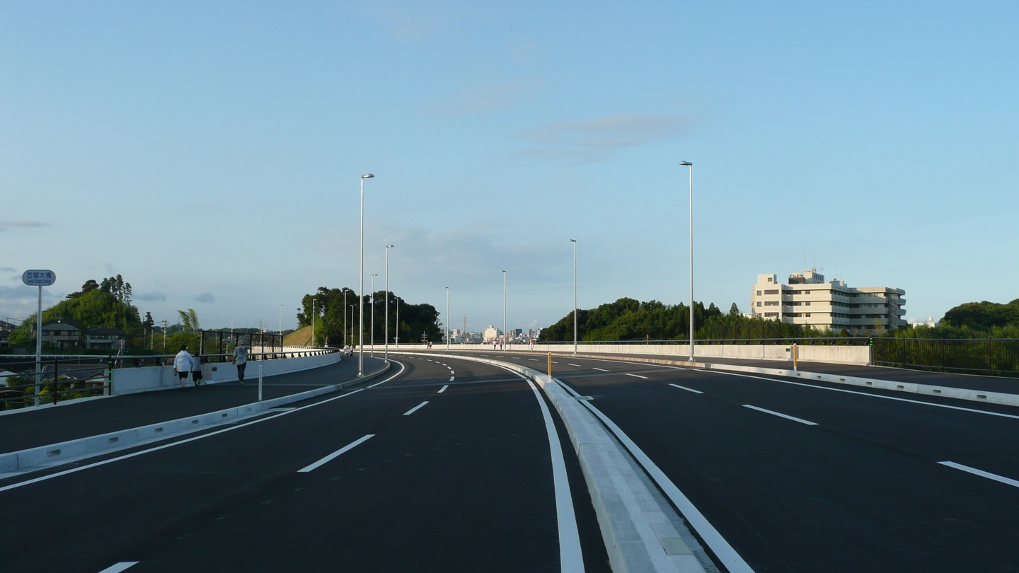 Route 269 Kano Bypass - Furujo Ohashi Bridge (Miyazaki City, Miyazaki, Japan)